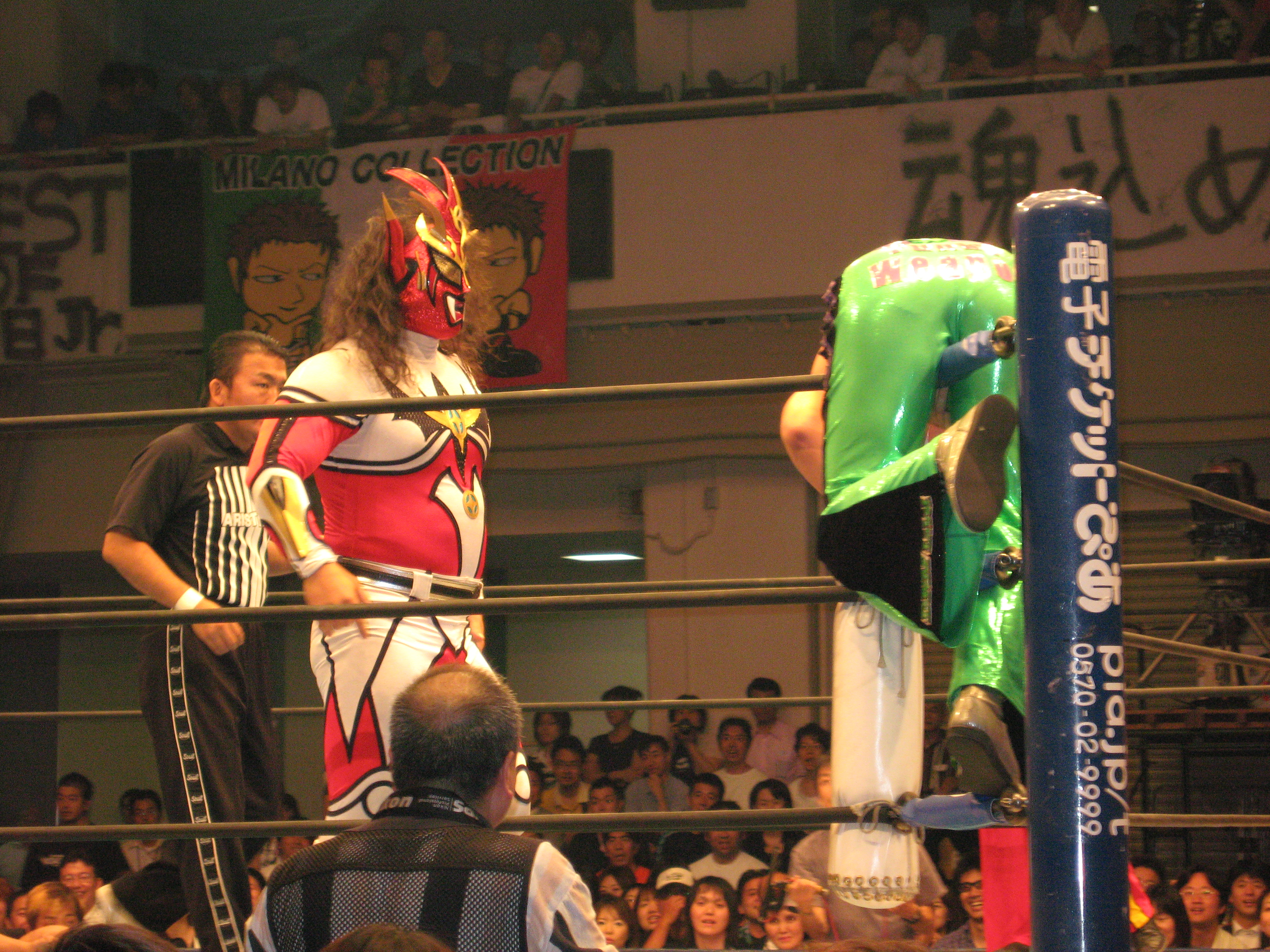 Liger hangs Ryusuke "Funky Weapon" Taguchi out to dry. Korakuen Hall, Tokyo, Japan. 6.17.07.